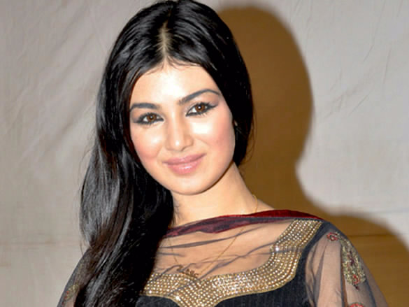 Ayesha Takia at Audio release of 'Mod' film